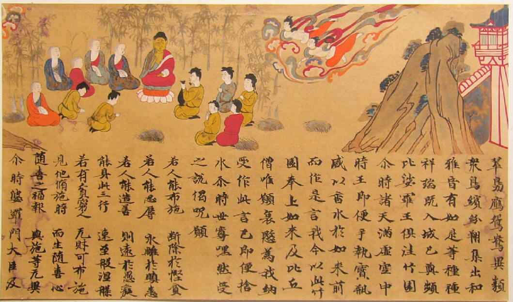 The Illustrated Sutra of Cause and Effect: 8th century, Japan. 26.5cm height. ink, color on paper, handscroll. Total length 1100.5cm. One scene of The Illustrated Sutra of Cause and Effect handscroll later part of volume 4th . Now in the University Museum: Tokyo National University of Fine arts and Music, Tokyo, Japan. Original Province: Kōfuku-ji Temple in Nara, Japan. This sutra is called the Sutra of Cause and Effect in the Past and Present (Kako genzai inga kyō in Japanese), more commonly known as the Illustrated Sutra of Cause and Effect (絵因果経 in Japanese). The words of the sutra are copied in the lower half, while the upper half illustrates representative scenes described in the text. The story begins with the training of the historical Buddha Sakyamuni in his past lives, how he was freed suffering and delusion, and how he achieved enlightenment and became a Buddha. In other words, this sutra is somewhat like the Buddha's biography.